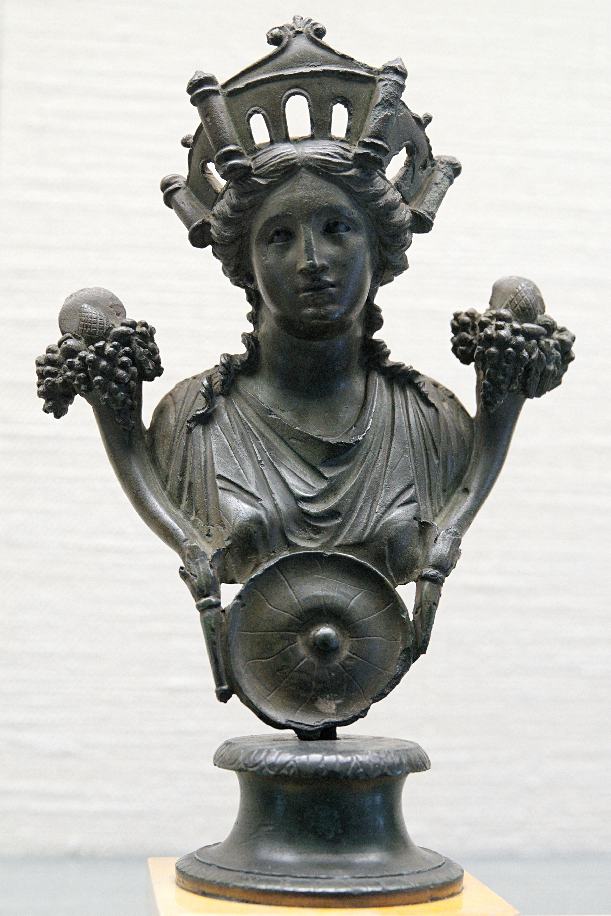 Bust of Cybele, Gallo-Roman bronze, 1st century AD. Found near Tours-en-Vimeu, Picardy, ca. 1754.